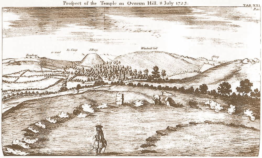 The Sanctuary drawn by William Stukeley.